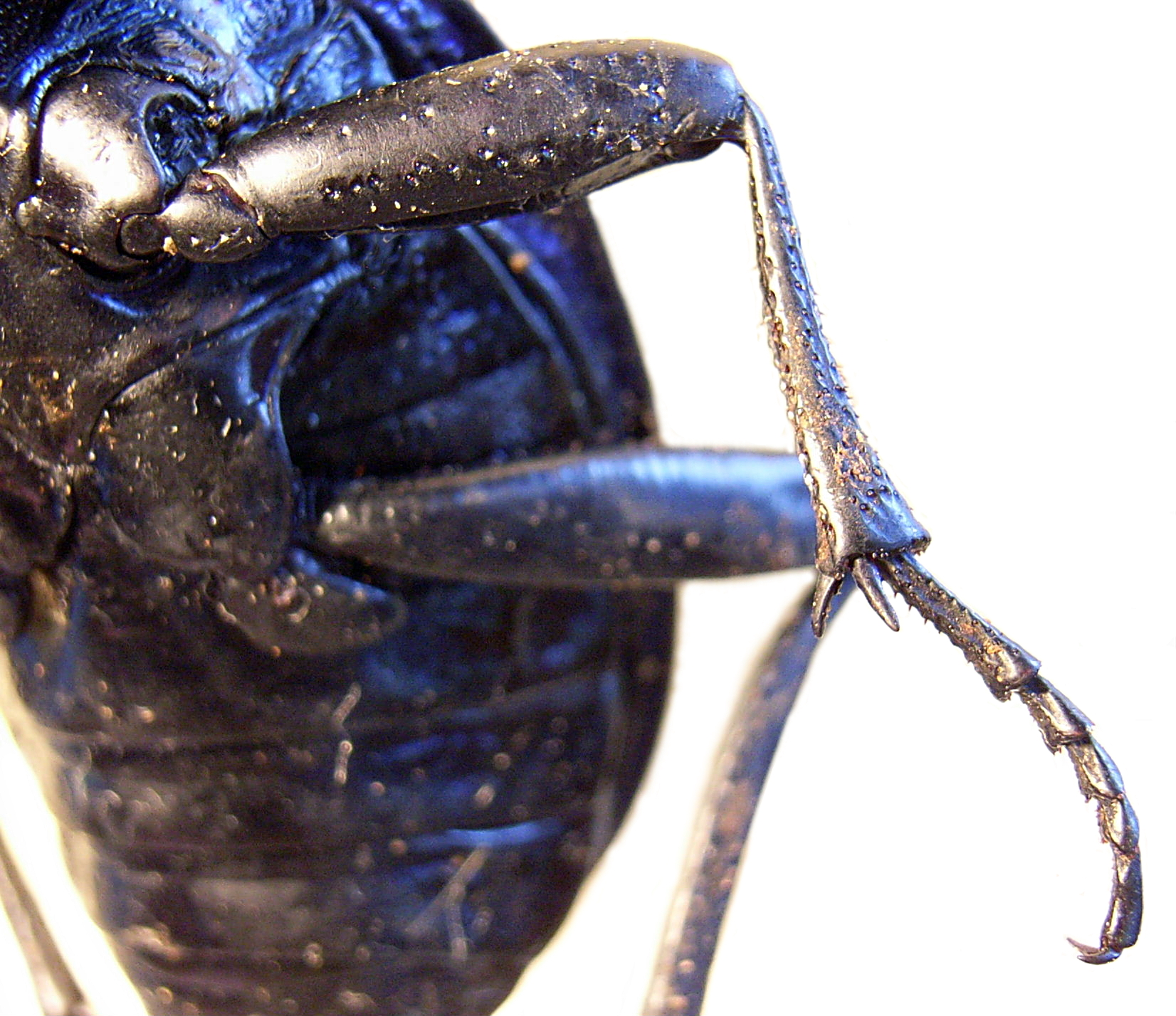 Leg of beetle Carabus (Procerus)